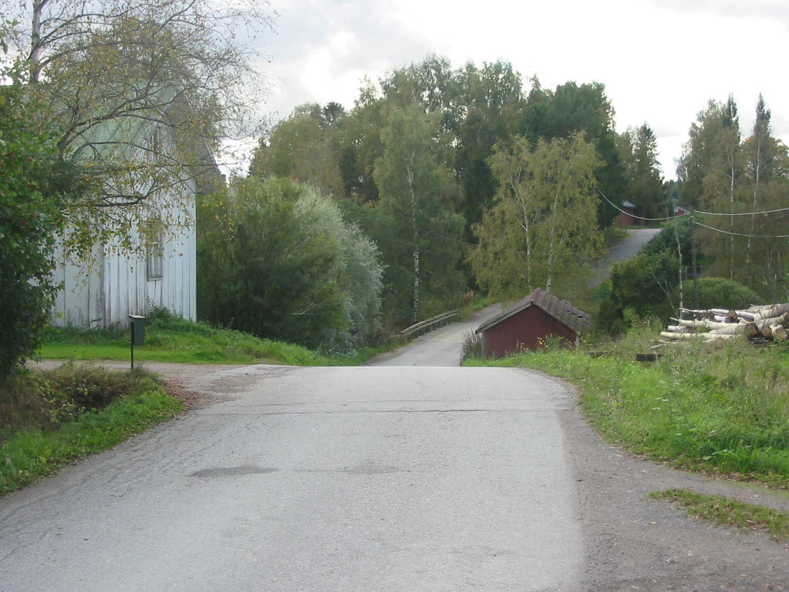 The Ylenjoen silta bridge between Ylenjoki and Kultela, Somero, Finland. At the left the historical site of the village Ylenjoki and on the opposite of the river side the historical site of the village Kultela.